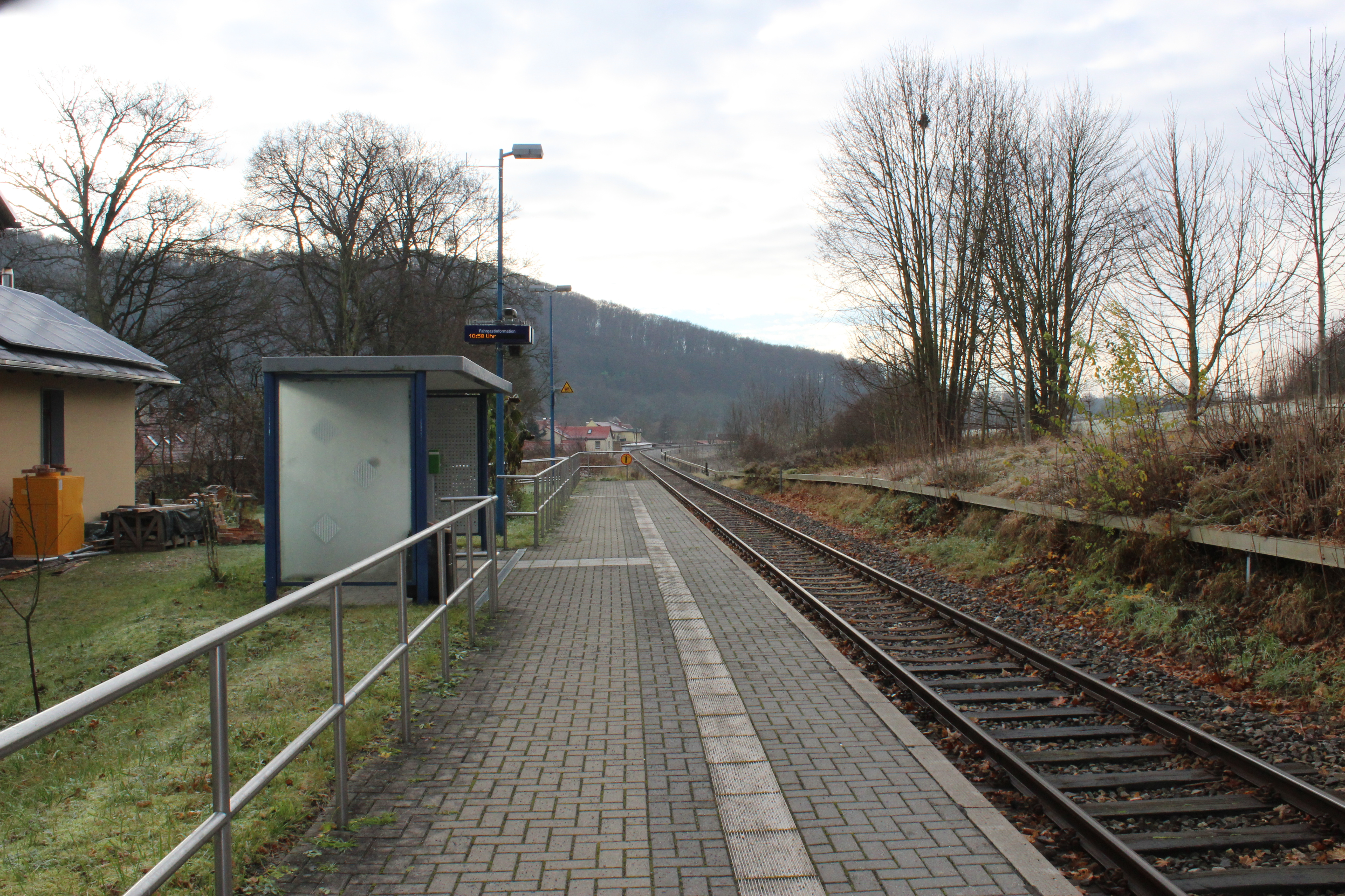 train station Hetschburg